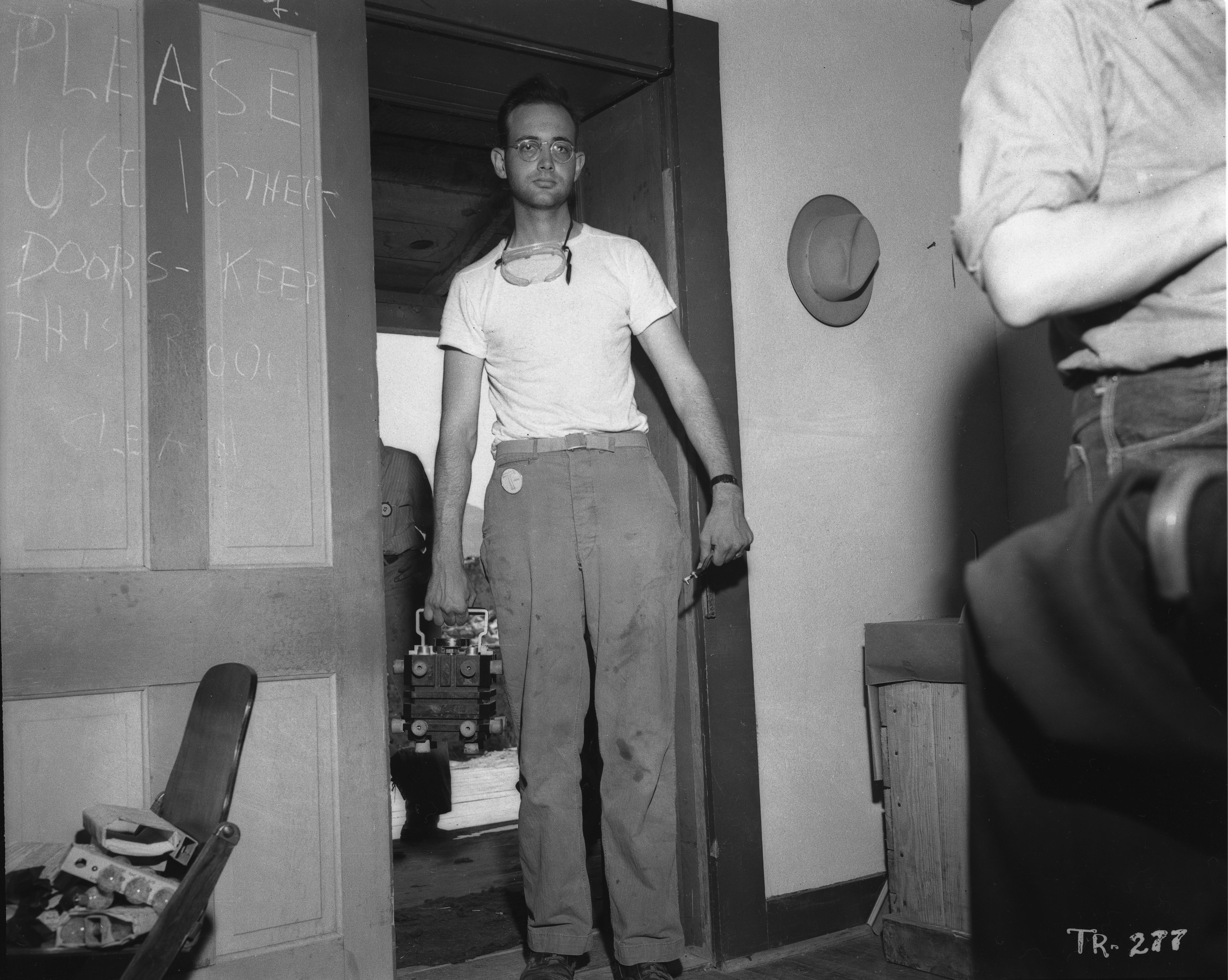 Sgt. Herbert Lehr delivering the plutonium core for the Gadget in its shock-mounted carrying case to the assembly room in the McDonald Ranch House.